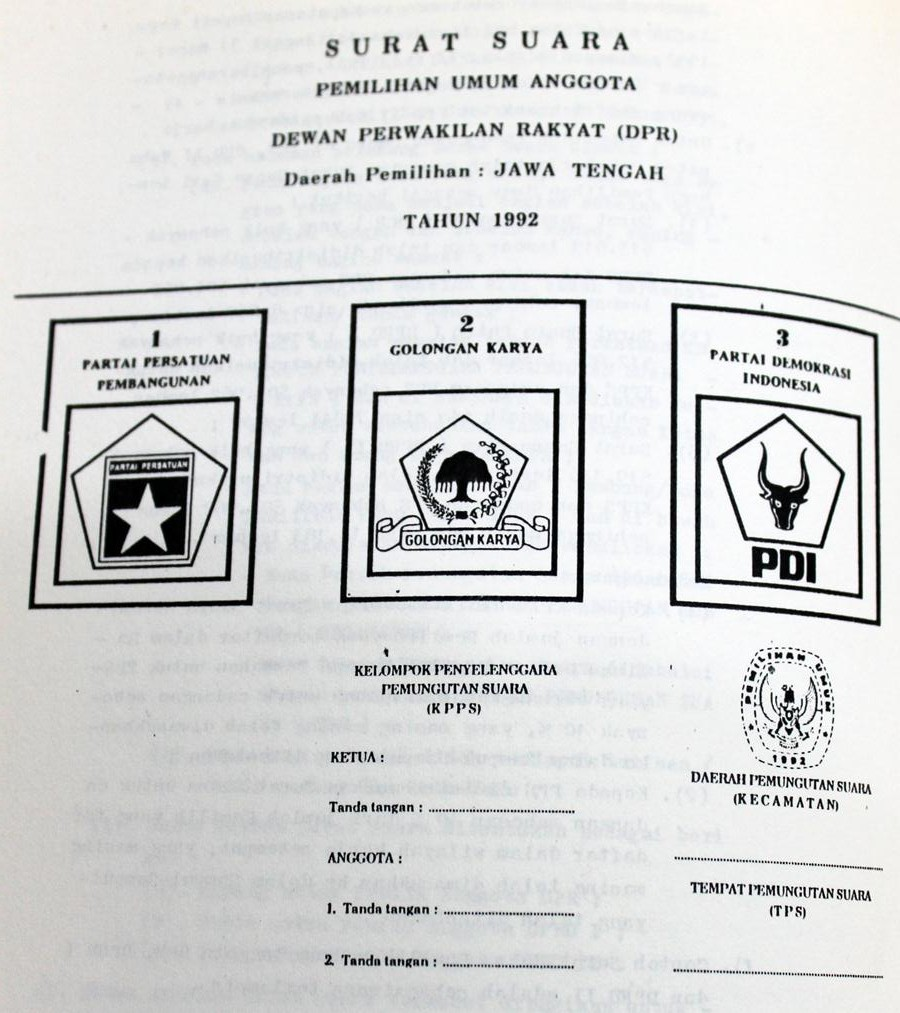 Portion of a ballot paper for the 1992 Indonesian legislative election.